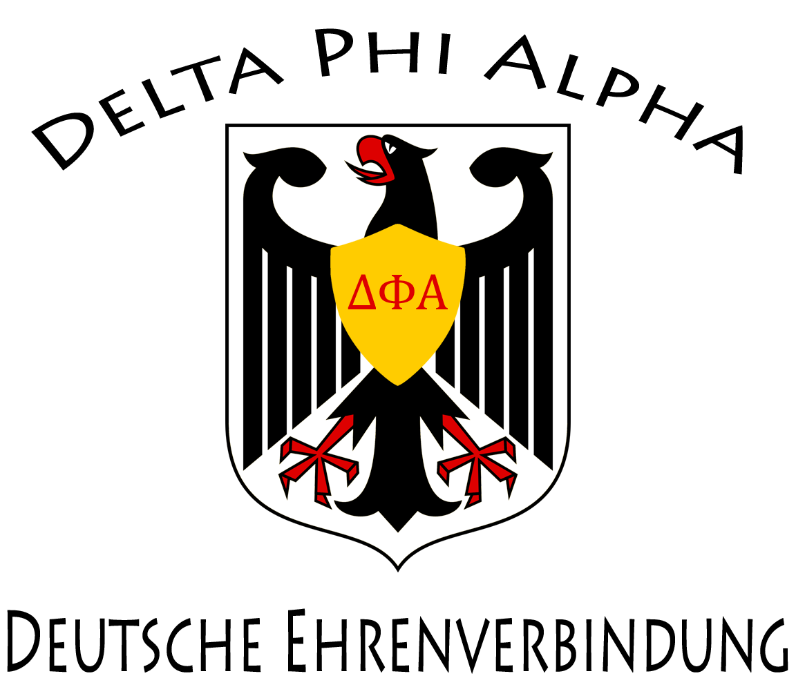 German national honor society crest